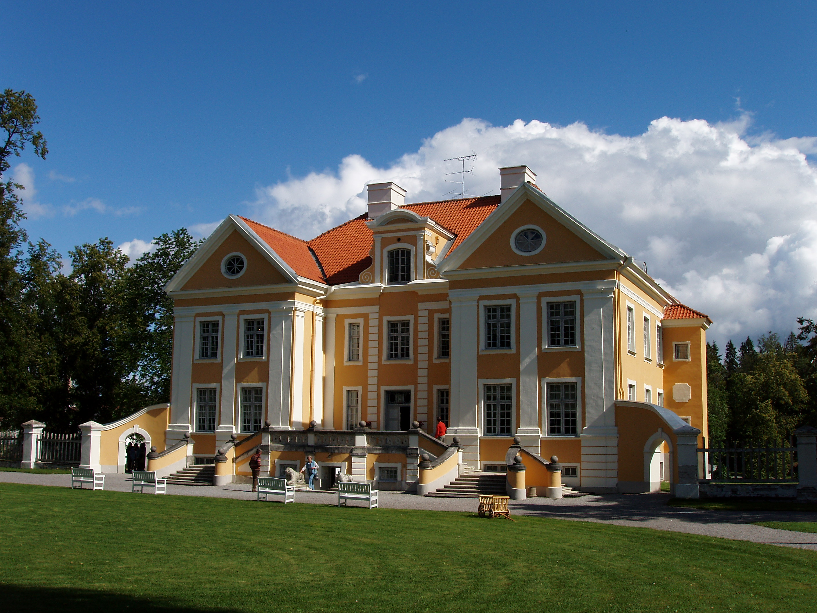 Palmse manor house.